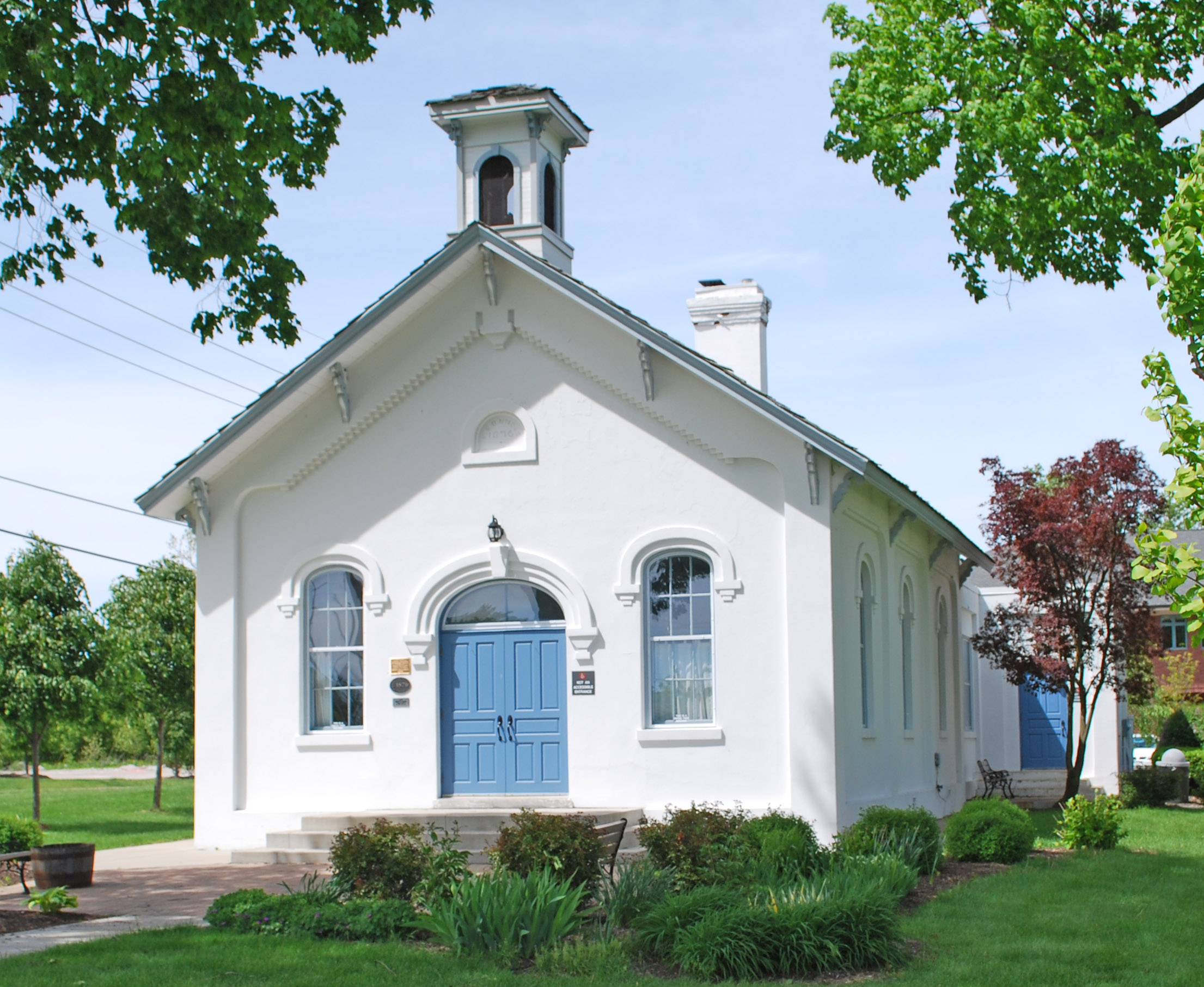 School in Cherry Hill Historic District, Cherry Hill MI